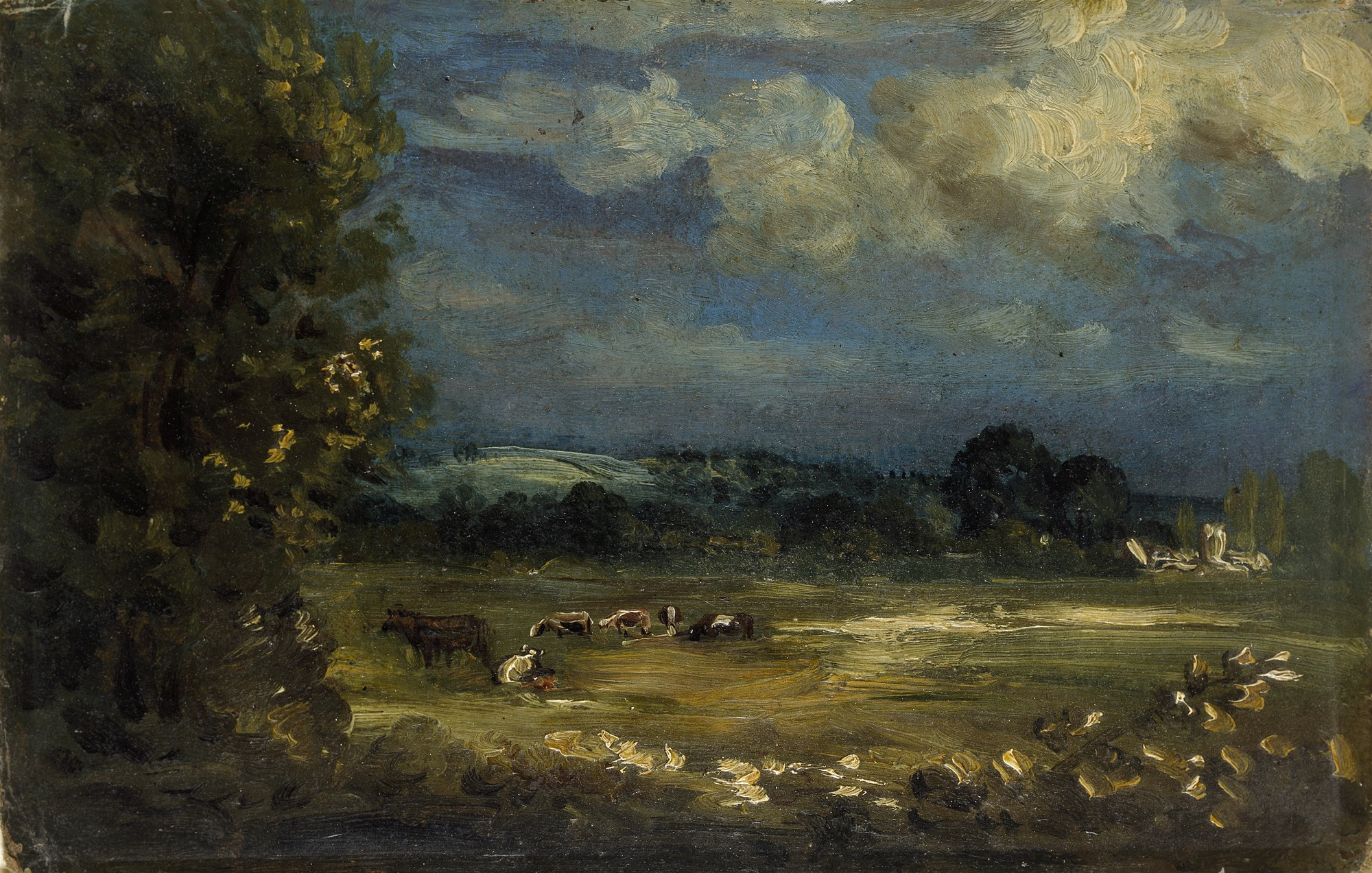 Landscape Britford Vale: Water Meadows by David Charles Read. Britford Water Meadows is a biological Site of Special Scientific Interest at Britford, south of Salisbury, Wiltshire, England.